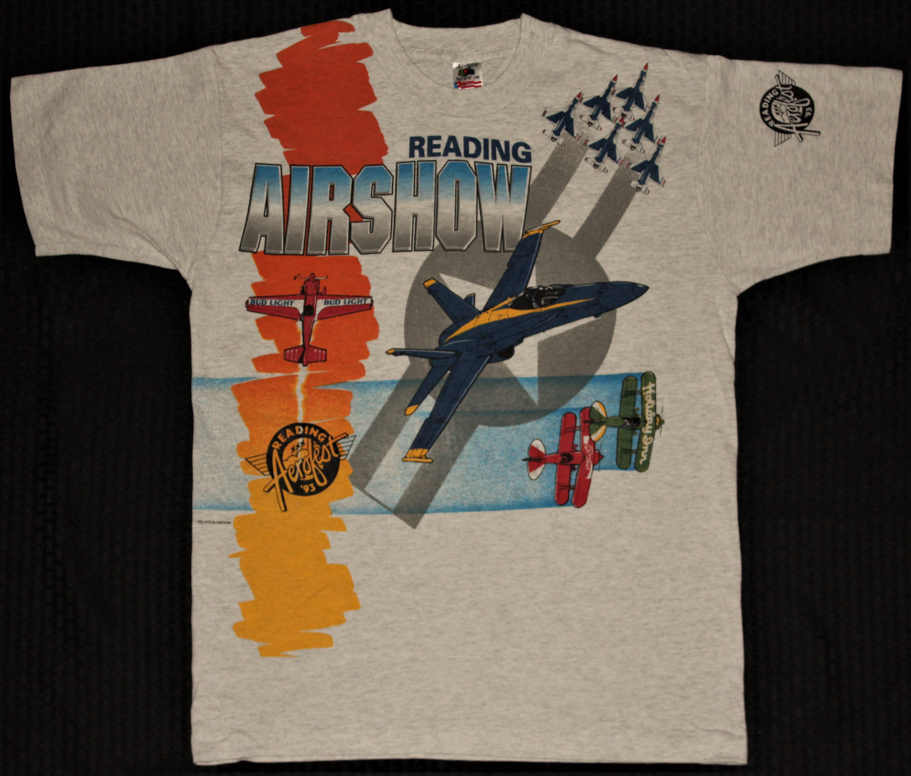 Reading Airshow / AeroFest shirt for 1993. Featuring U.S. Navy BlueAngels and U.S.A.F. Thunderbirds.